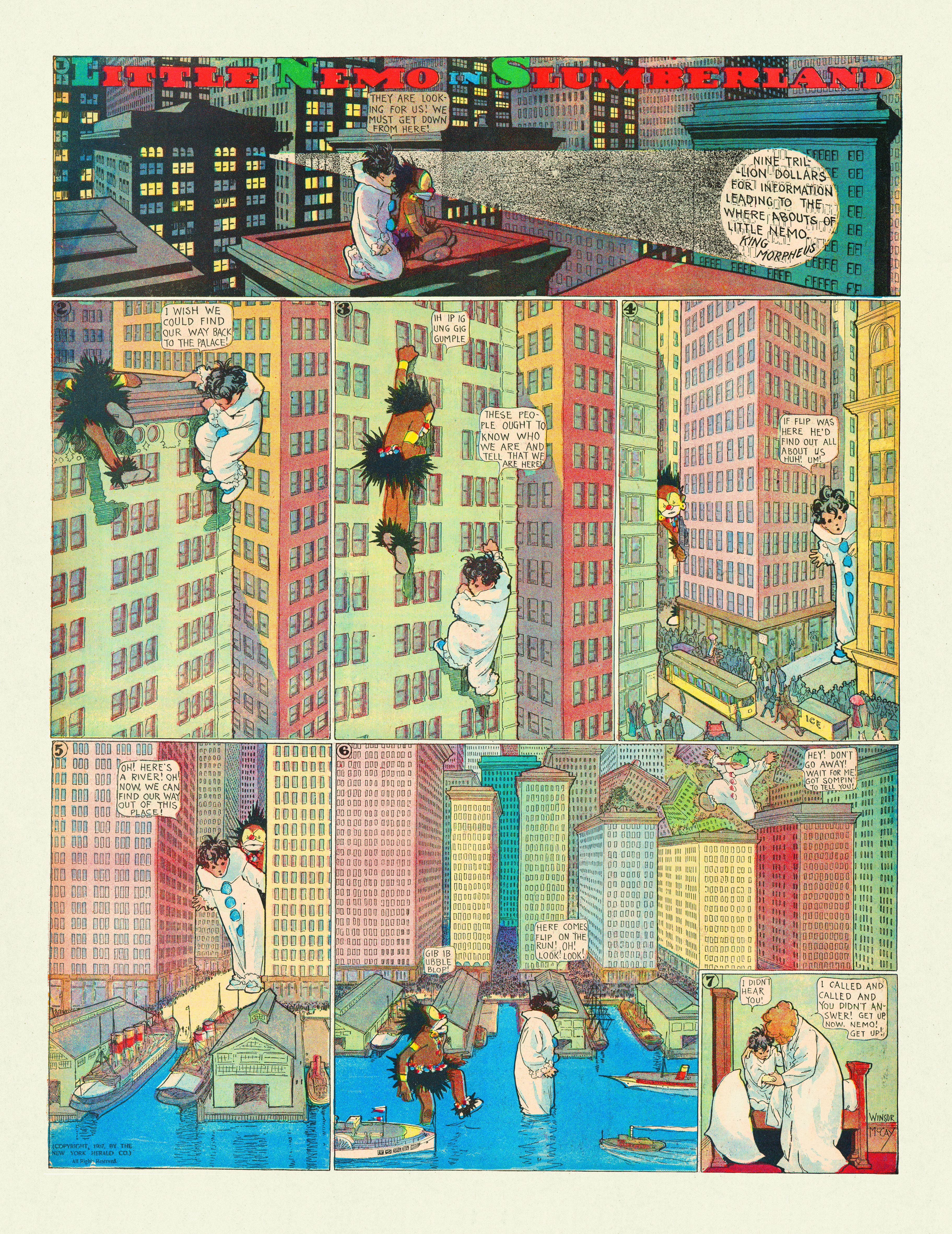 Little Nemo comic strip by Winsor McCay.